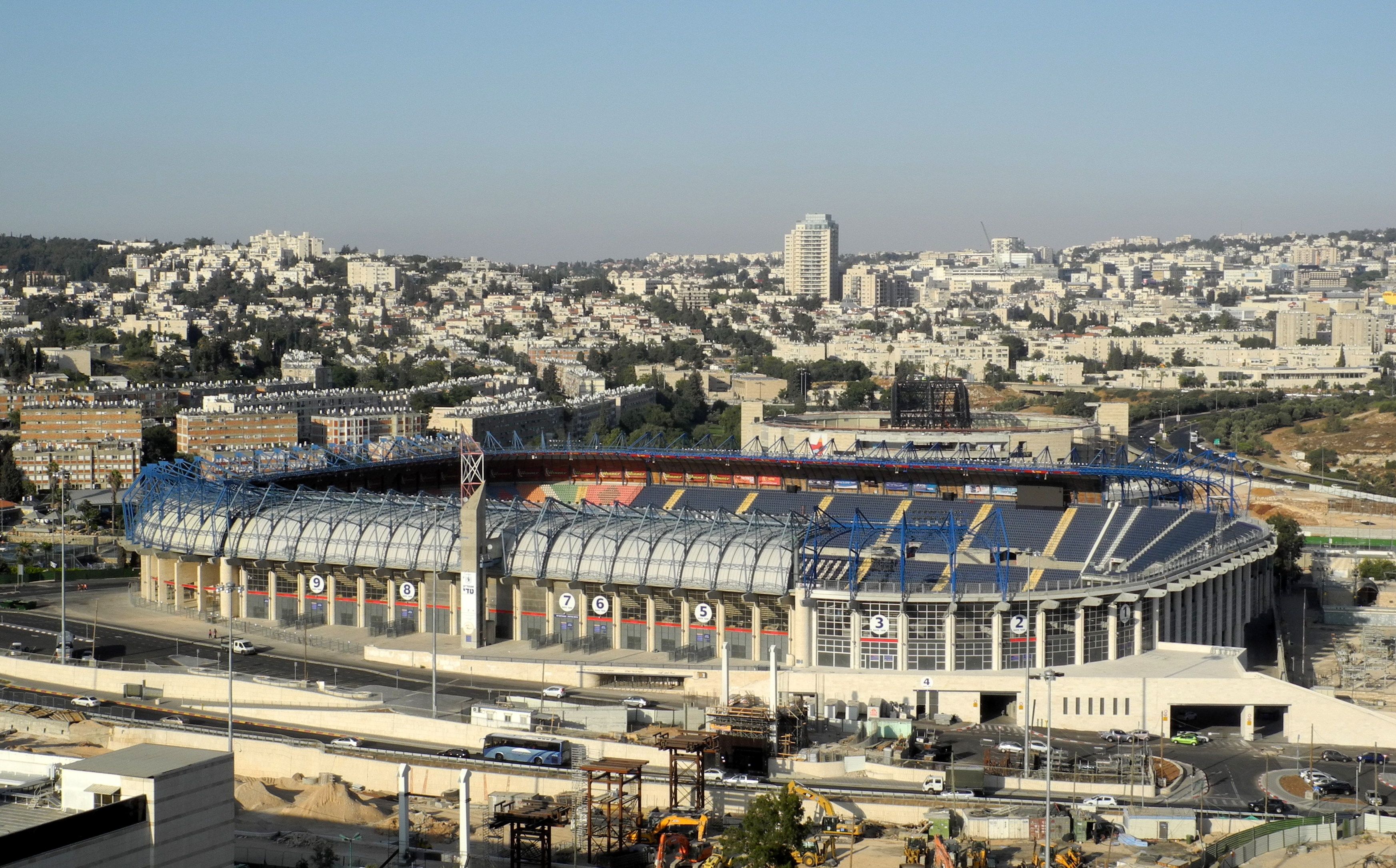 Teddy stadium, Jerusalem